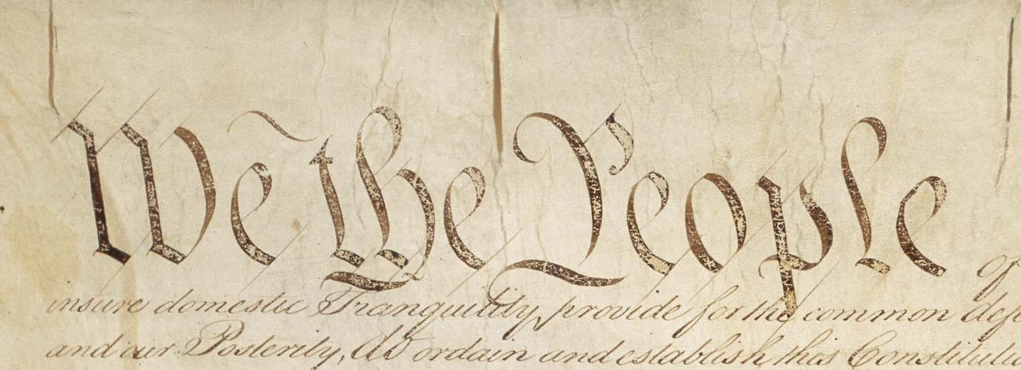 Detail of Preamble to Constitution of the United States